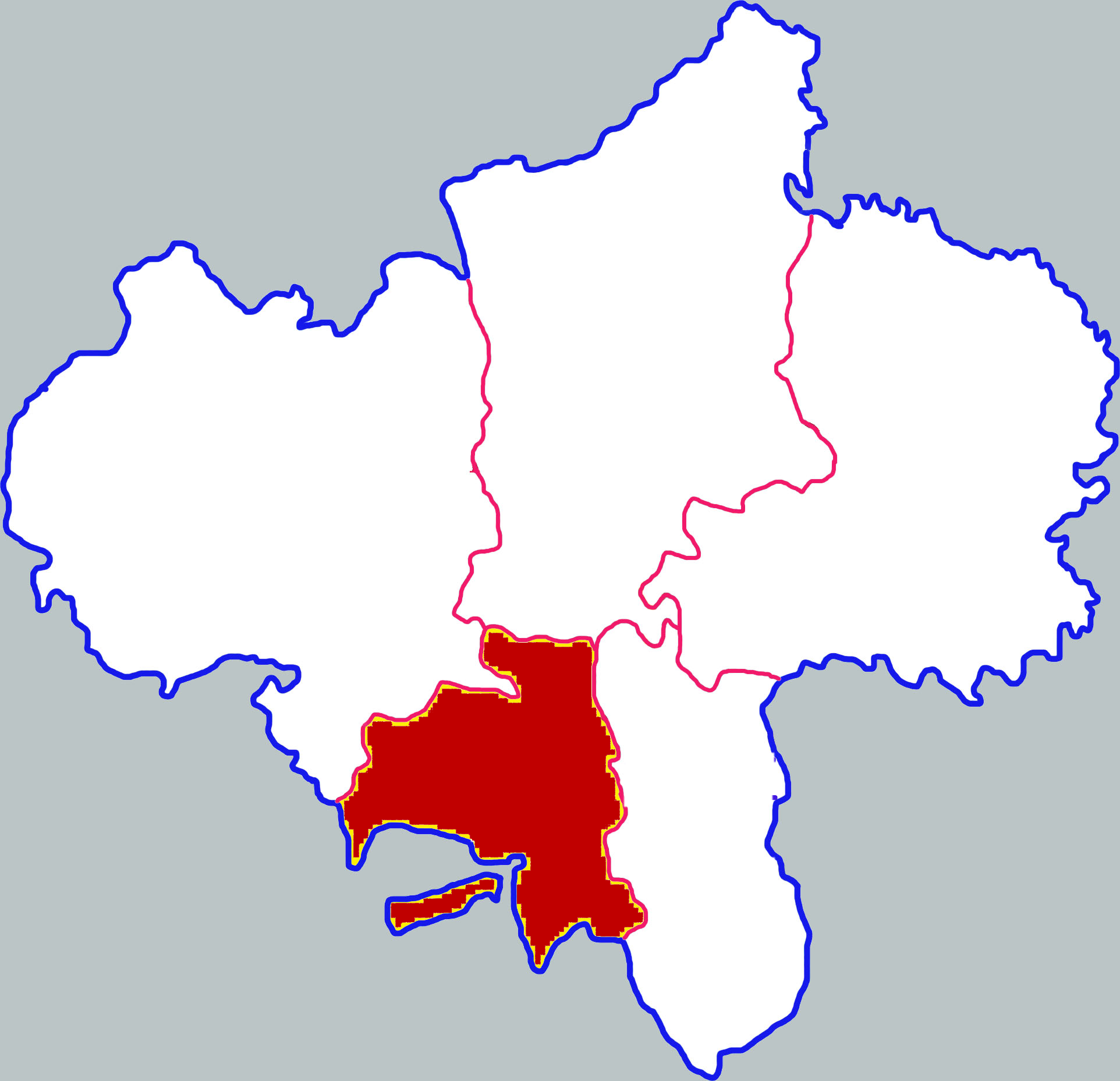 Location of Longde county in Guyuan city, China